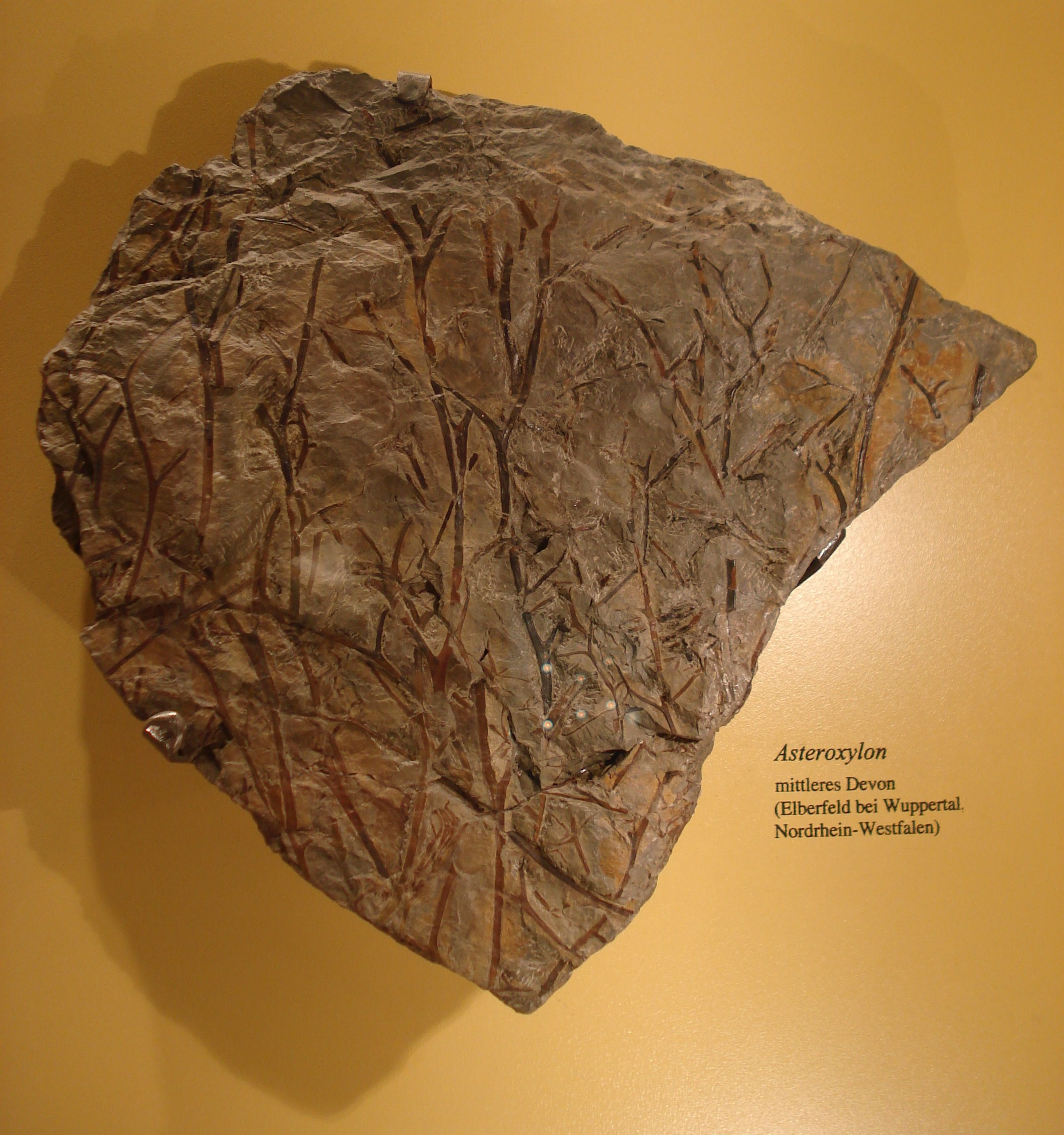 Fossil of Asteroxylon a fossil lycopod